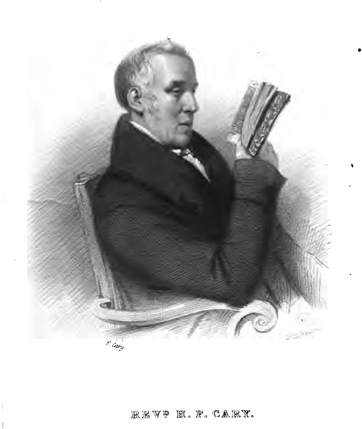 Rev Henry Francis Cary (1772-1844) , portrait by his son, Francis Stephen Cary (1808-1880). Illustration from Memoir of the Rev. Henry Francis Cary, M.A. by his son, Henry Cary, M.A. Pub: Edward Moxon, Dover St London, MDCCCXLVII